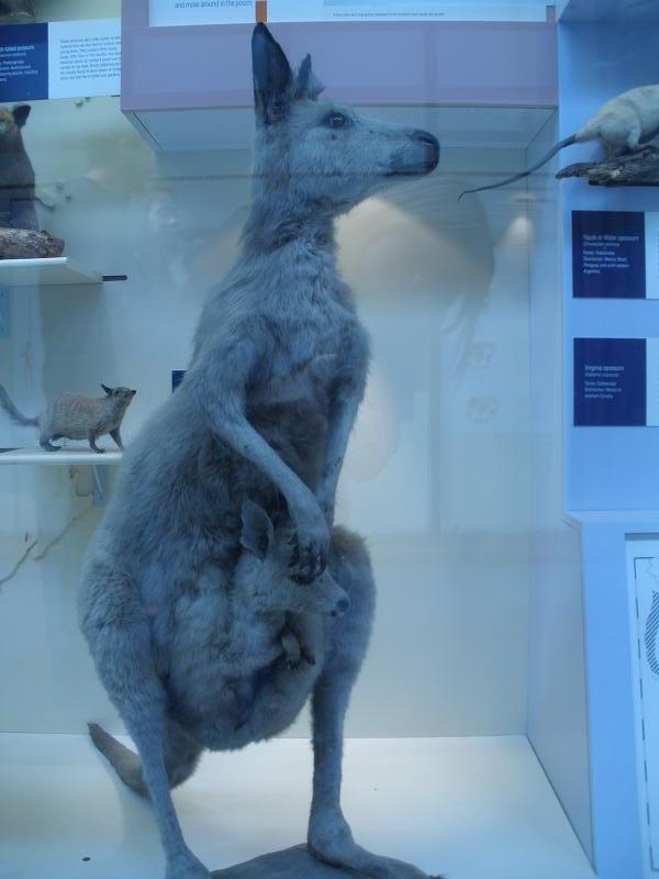 Taxidermied Tammar Wallaby (Macropus eugenii), also known as the Dama Wallaby or Darma Wallaby, numbat (Myrmecobius fasciatus) and other Marsupialia sp. at the Natural History Museum in London, England.